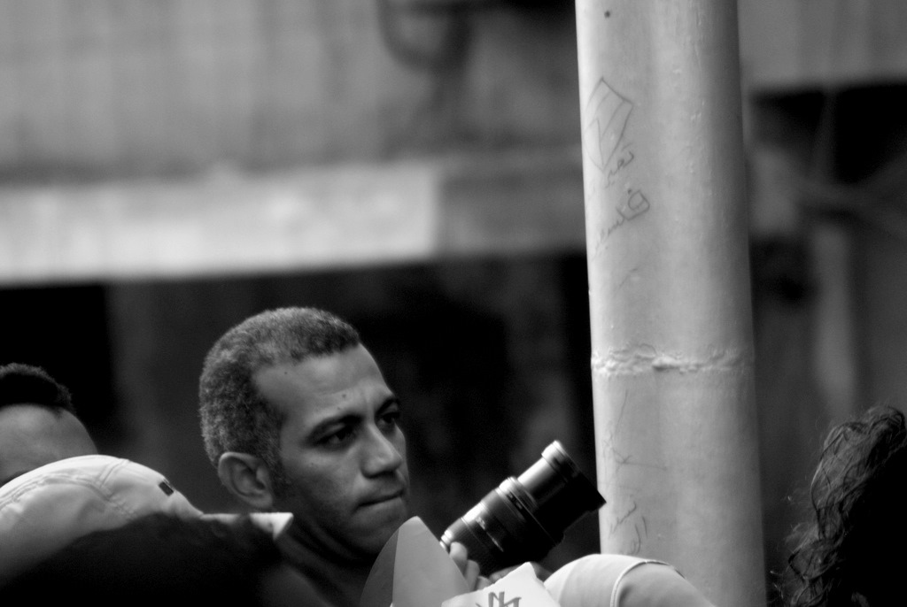 Socialist Blogger and Activist Hossam El Hamalawy taking photos during demo in front of Israel's Embassy in Cairo